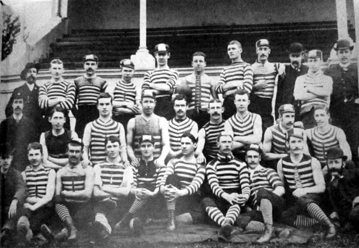 Team of Geelong FC, premiers.